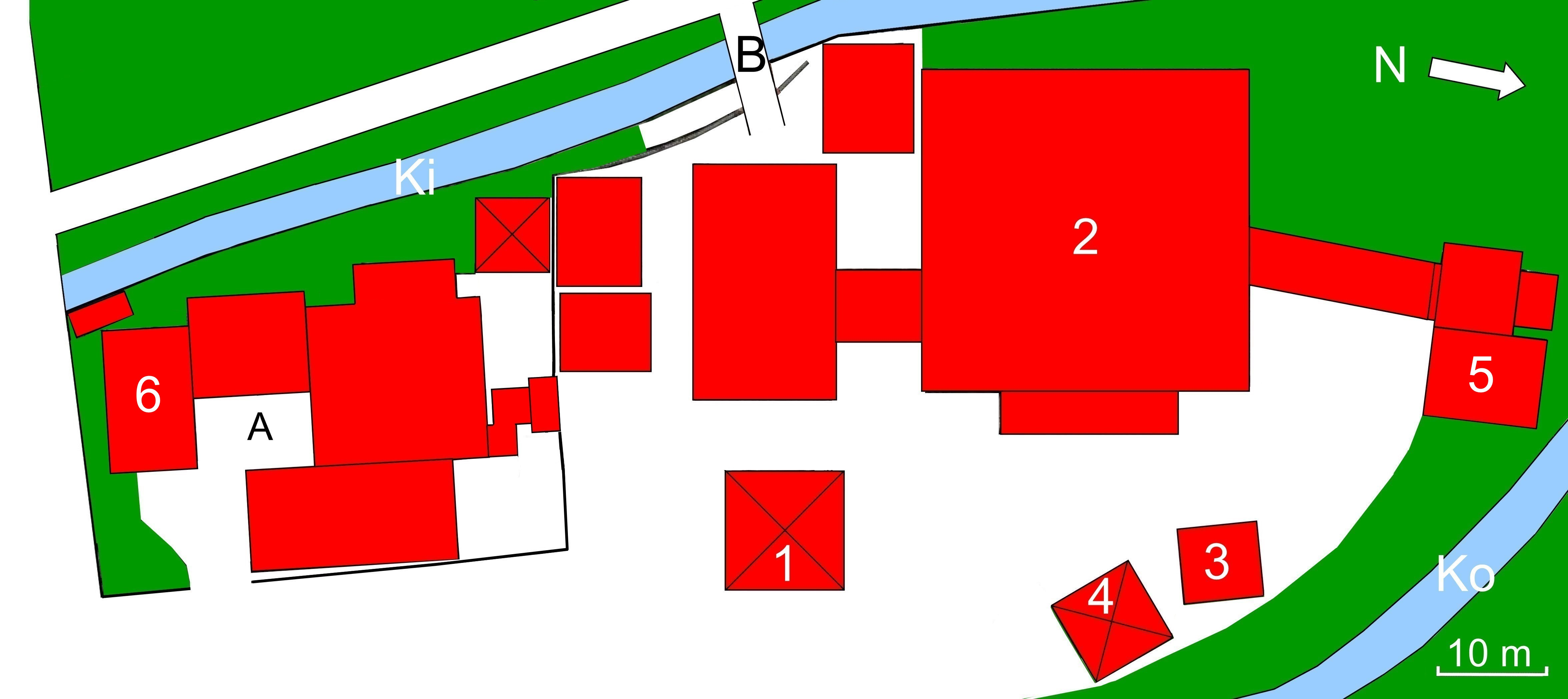 Layout of Mizuma-dera temple at Kaizuka, Japan